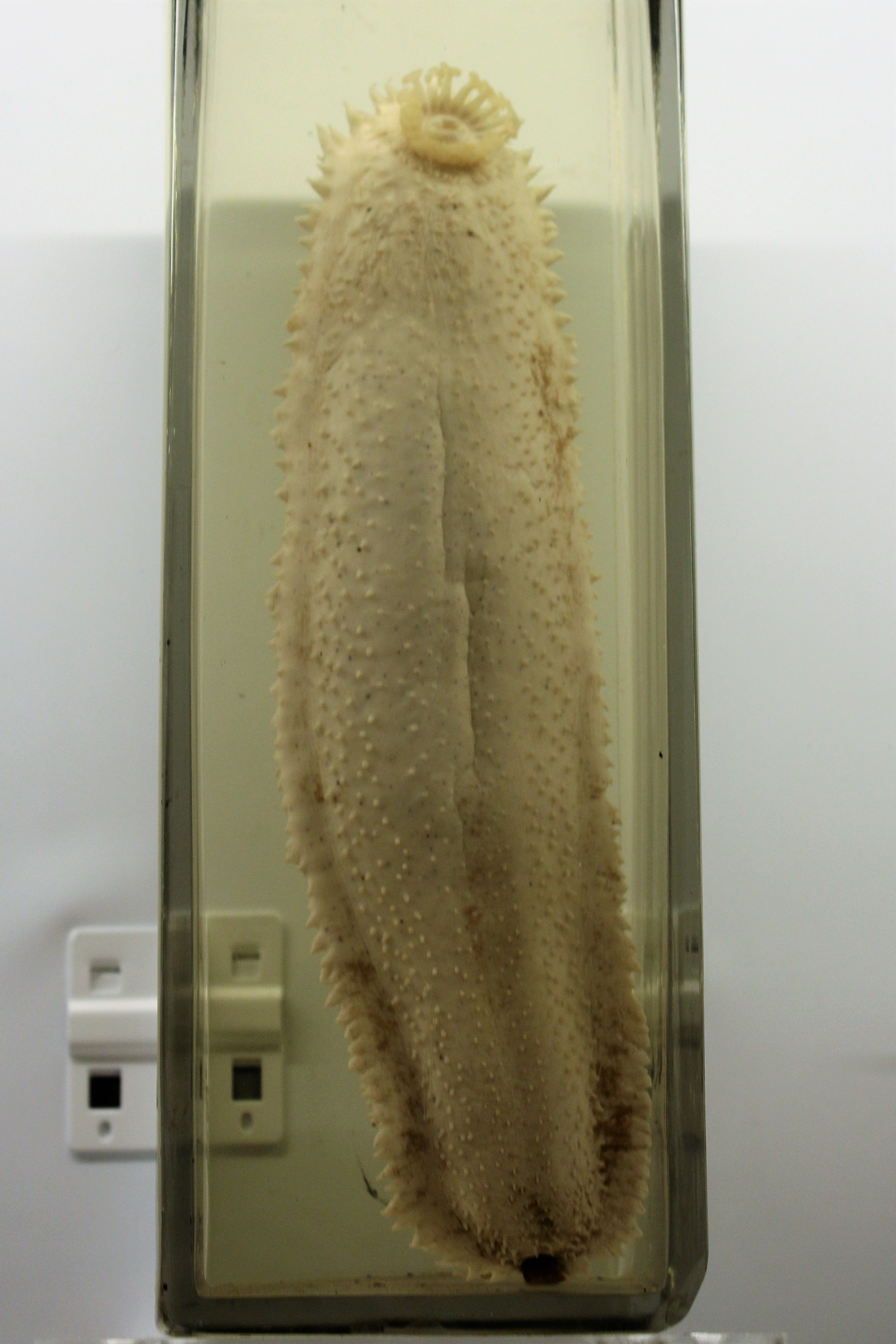 Parastichopus regalis at the Cambridge University Museum of Zoology, England.